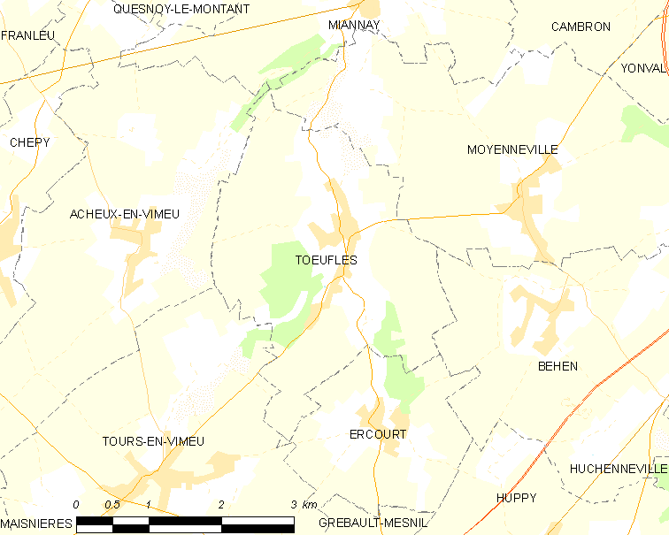 Map of French municipality Tœufles